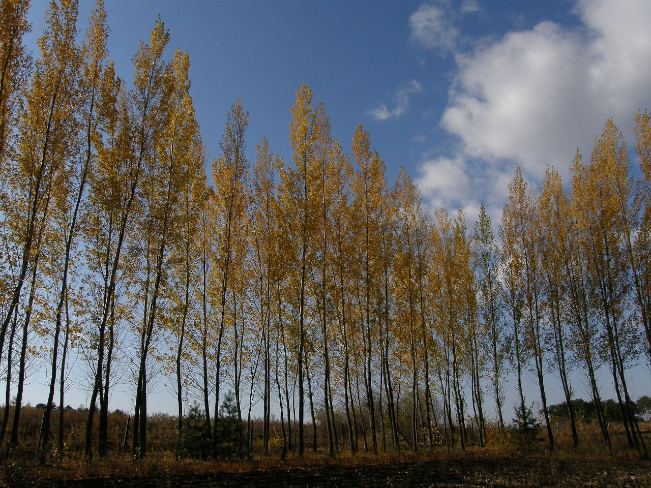 Poplars White birch housei-pref china096251